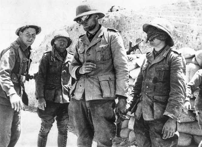 Cropped with GIMP and removed part of a caption at the upper left. Shows "German Prisoners in Libya", captured by the British after the Battle in Sidi Rezegh, late 1941.